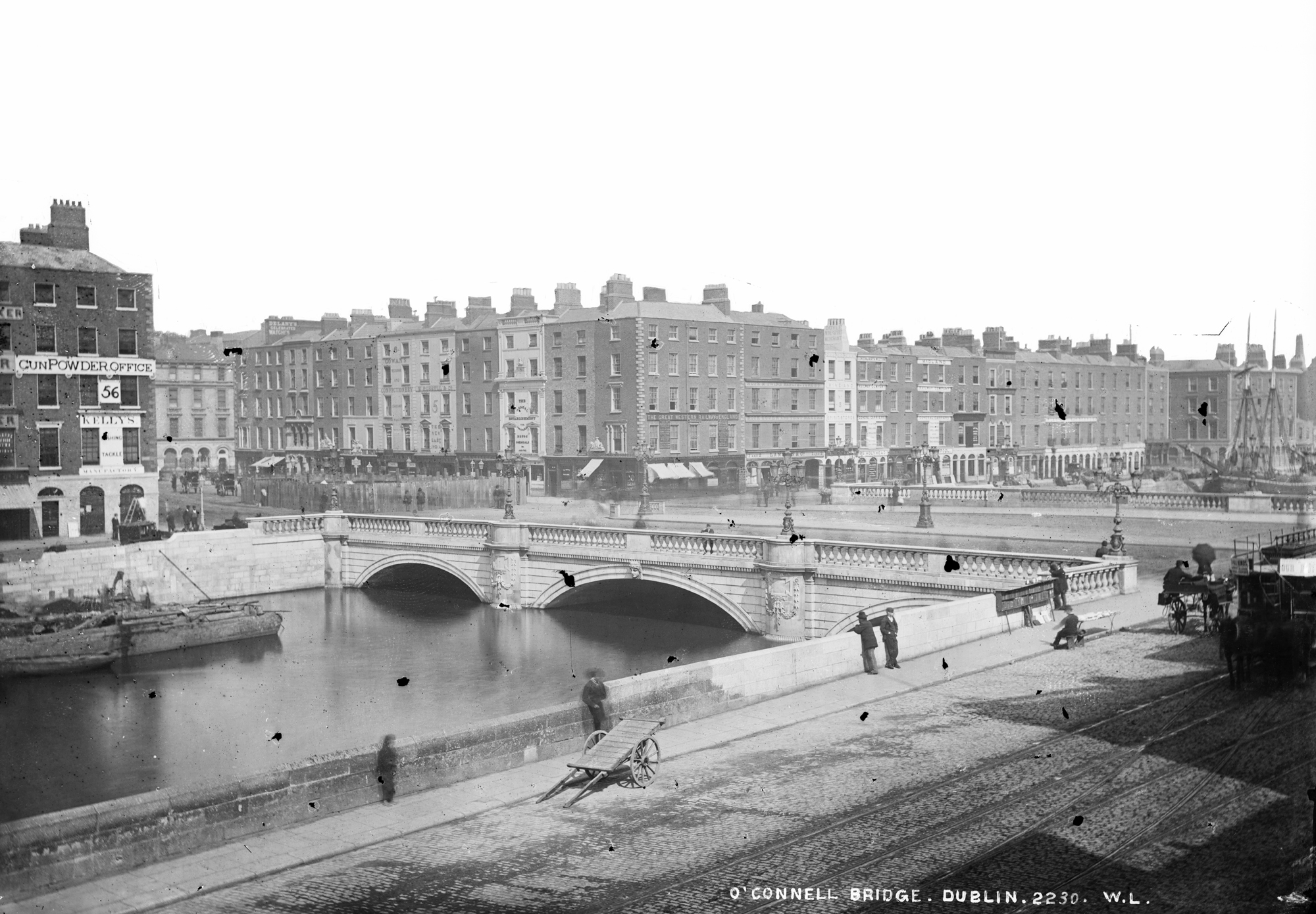 You can see from the hoardings, complete with people peeping through them, that construction seems to have started on the O'Connell Monument. NLI Ref.: L_CAB_02230